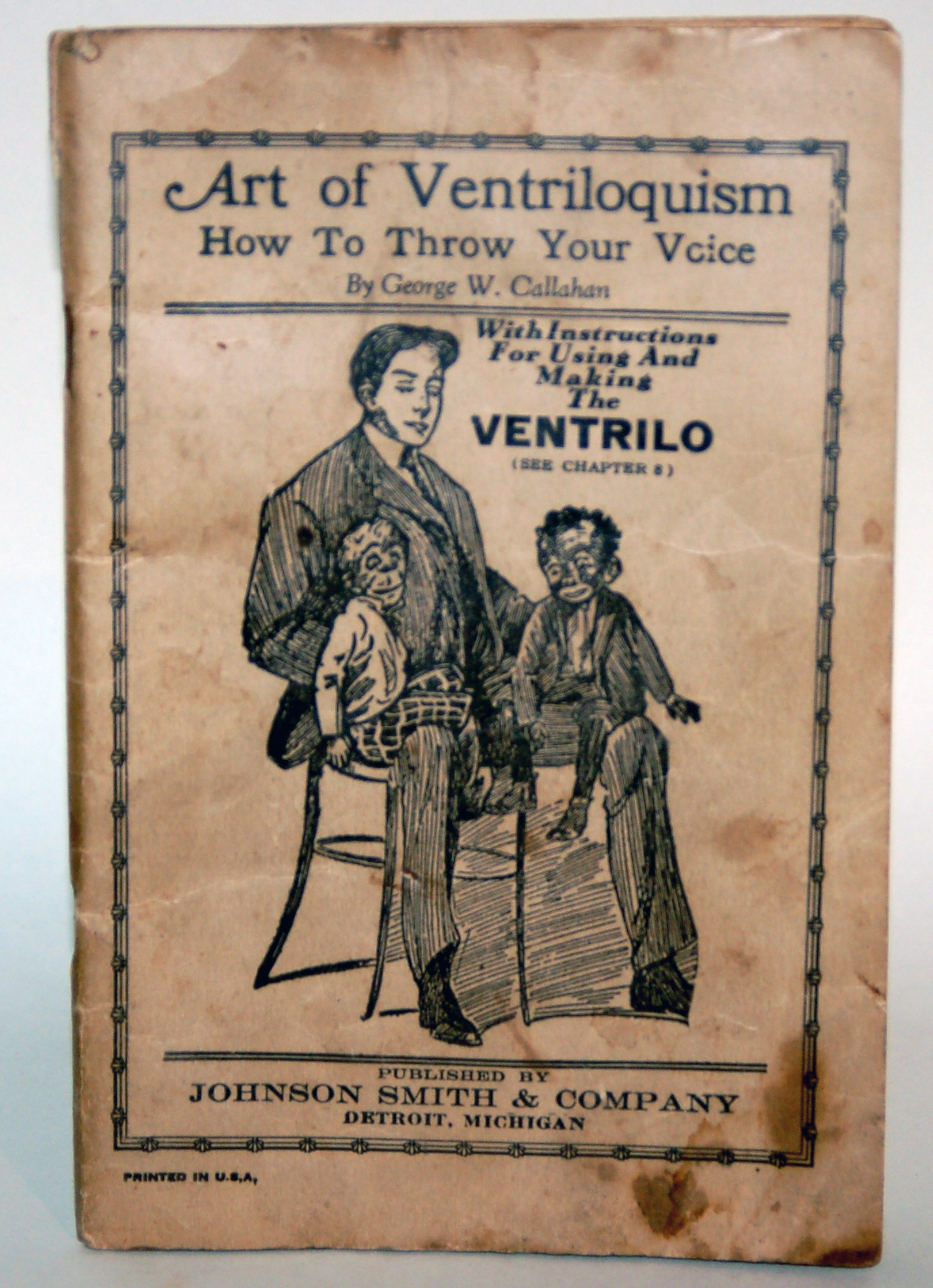 Ventriloquism booklet and novelty catalogue